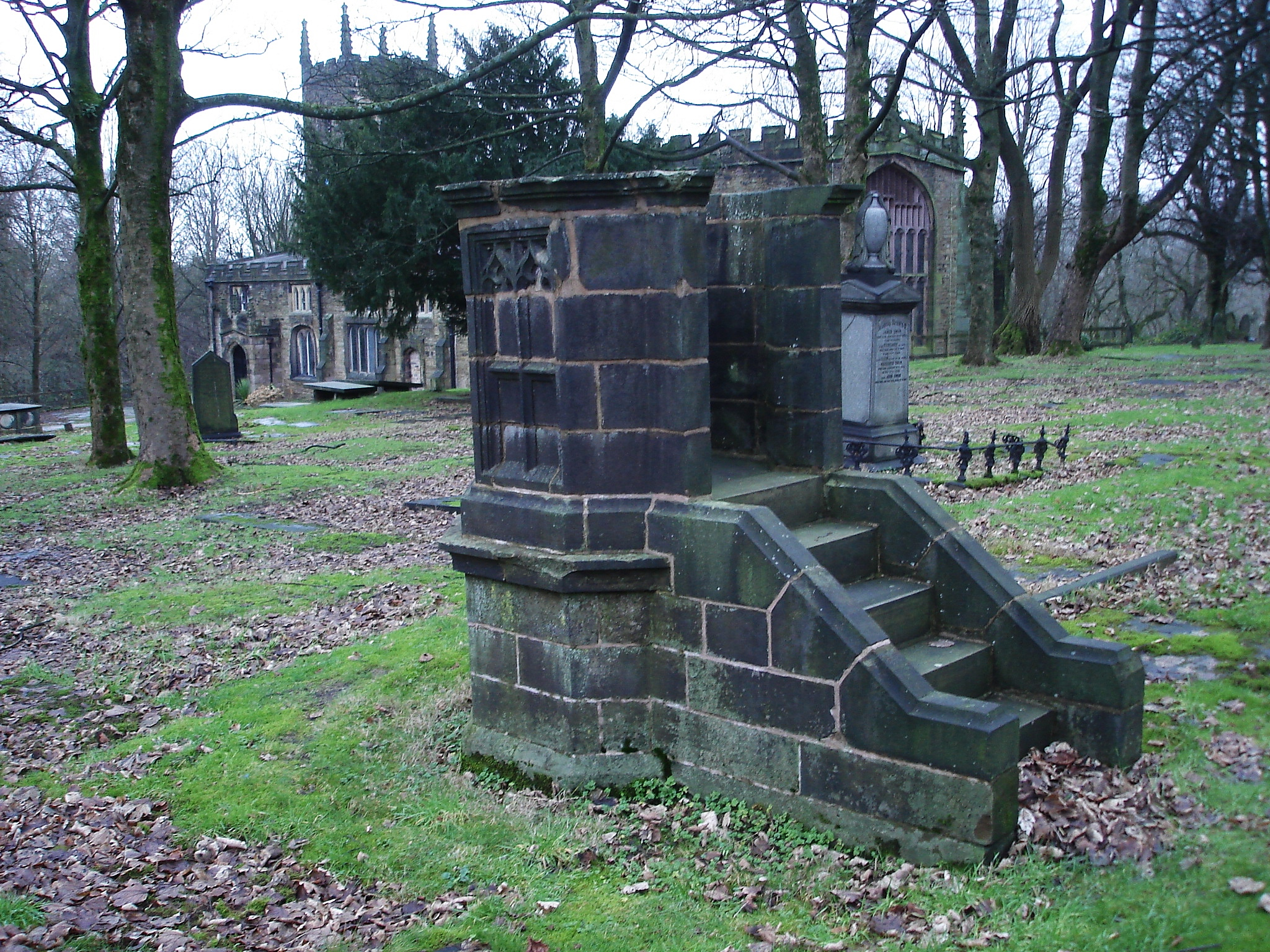 Pulpit in St Mary's churchyard, Deane